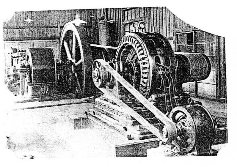 inside of Mito Daiichi power station